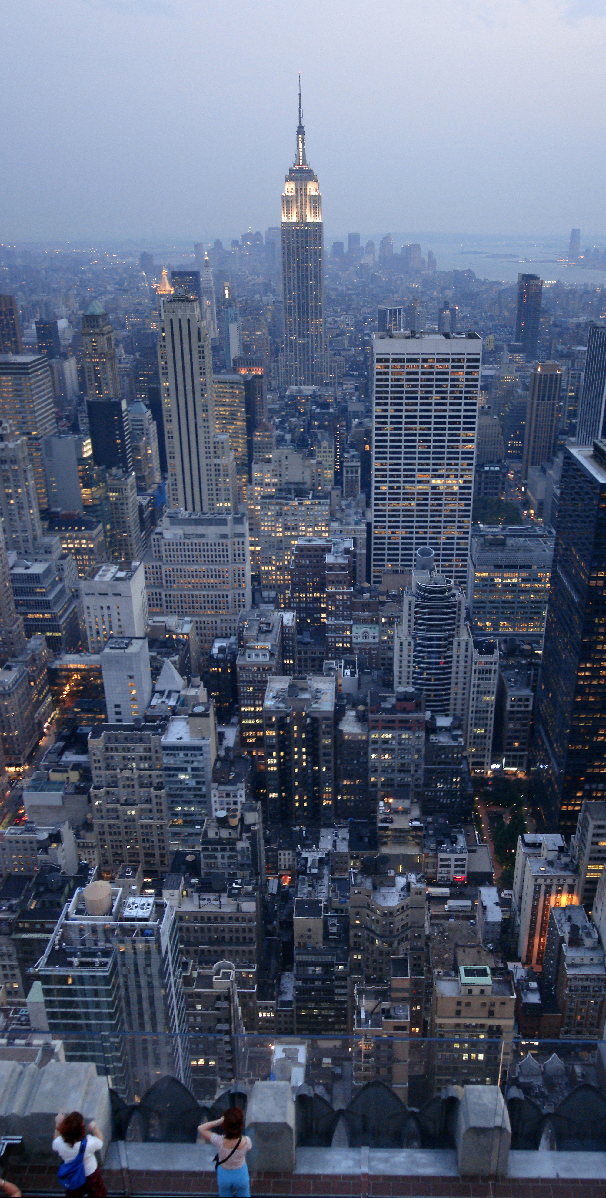 Panorama of the Empire State Building, New York City, from the top of the GE Building at 30 Rockefeller Center.